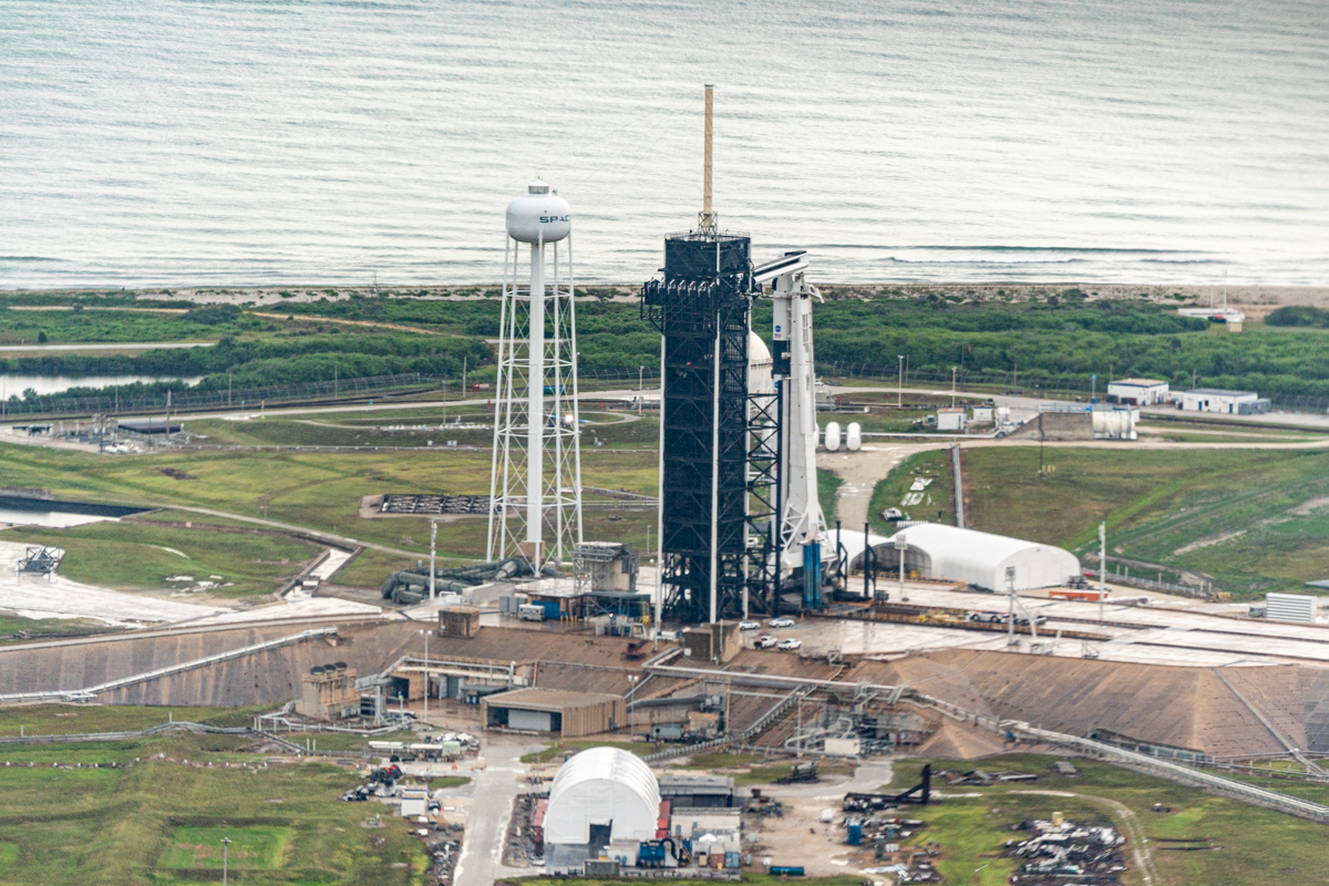 An aerial view of the launch pad for the SpaceX Crew Dragon spacecraft at the Kennedy Space Center is seen Wednesday, May 27, 2020, taken from Air Force One on its arrival to the NASA Shuttle Landing Facility in Orlando, Fla. (Official White House Photo by Shealah Craighead)